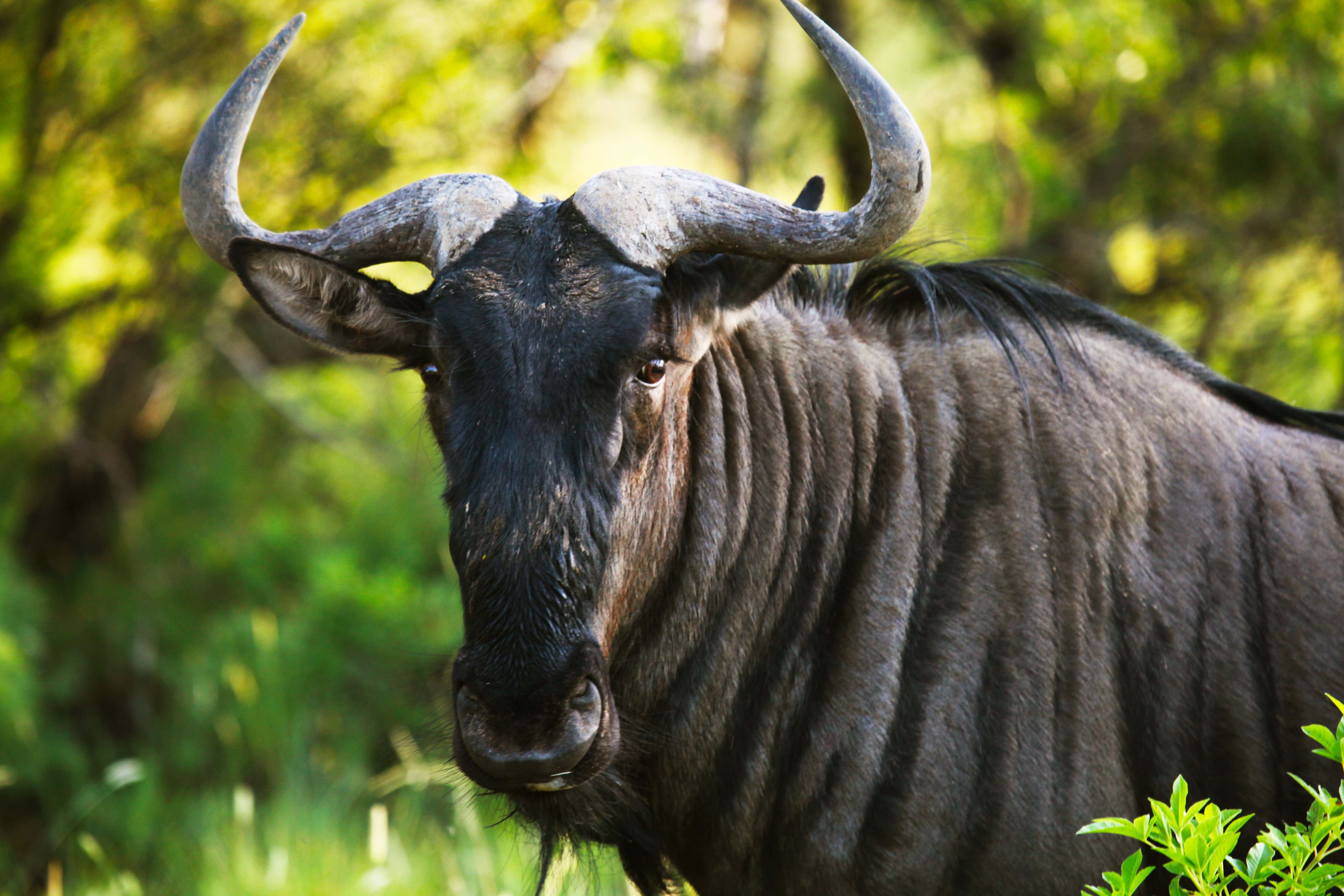 Wildebeest Kwafubesi, Limpopo Provence South Africa